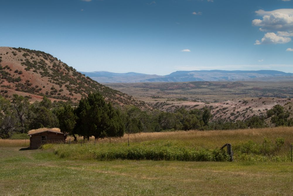 Historic Ranch in Bighorn Canyon National Recreation Area